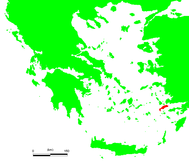 GR Kos.PNG (Greek island)